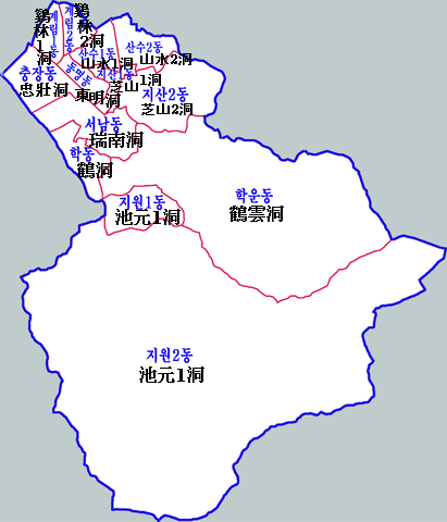 Donggu-gwangju